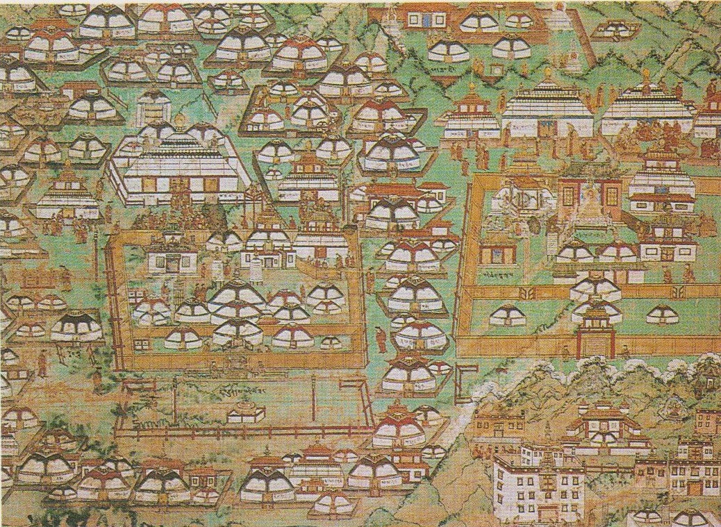 Painting Urga Mid 19th century